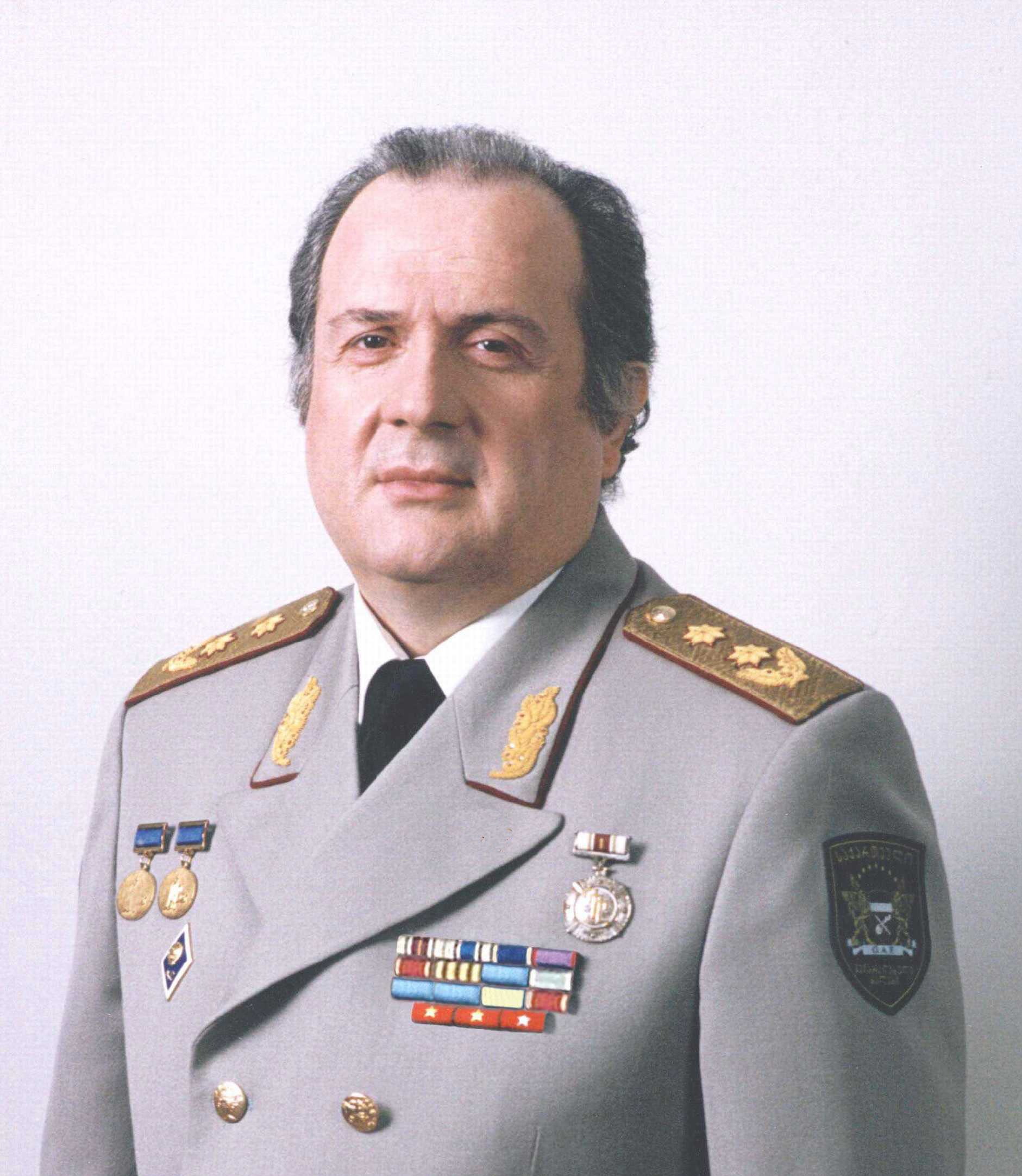 dd